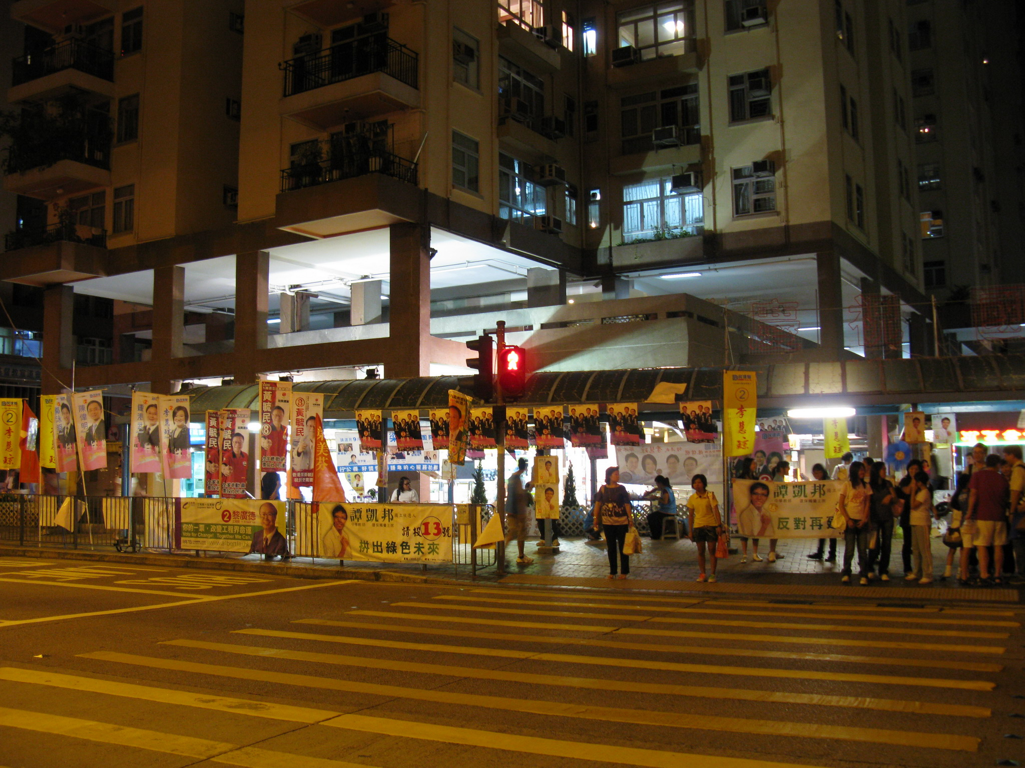 2008 Legislative Council Election Kowloon West Geographical Constituency